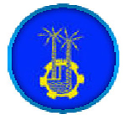 Emblem of the Aswan Governorate.